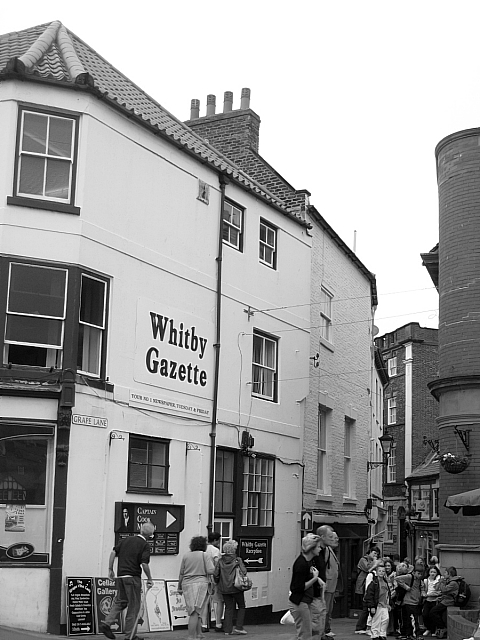 Whitby Gazette, No's 1-3, Grape Lane This grade II listed building in painted brick dates back to the early C19. This side view of the premises show they run into Grape Lane from Bridge Street. It was founded 1854 by Ralph Horne, a local printer, bookseller, stationer and shipowner. Originally little more than a list of visitors to Whitby, it became a proper weekly newspaper in 1858.